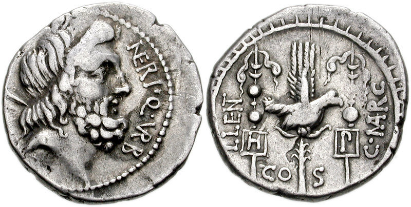 Cn. Nerius 49 BC. AR Denarius (18mm, 3.85 g). Head of Saturn right; harpa behind / Legionary eagle between two standards, inscribed H (Hastati) and P (Princeps). Crawford 441/1; CRI 2; Sydenham 937; Neria 1. VF, lightly toned.